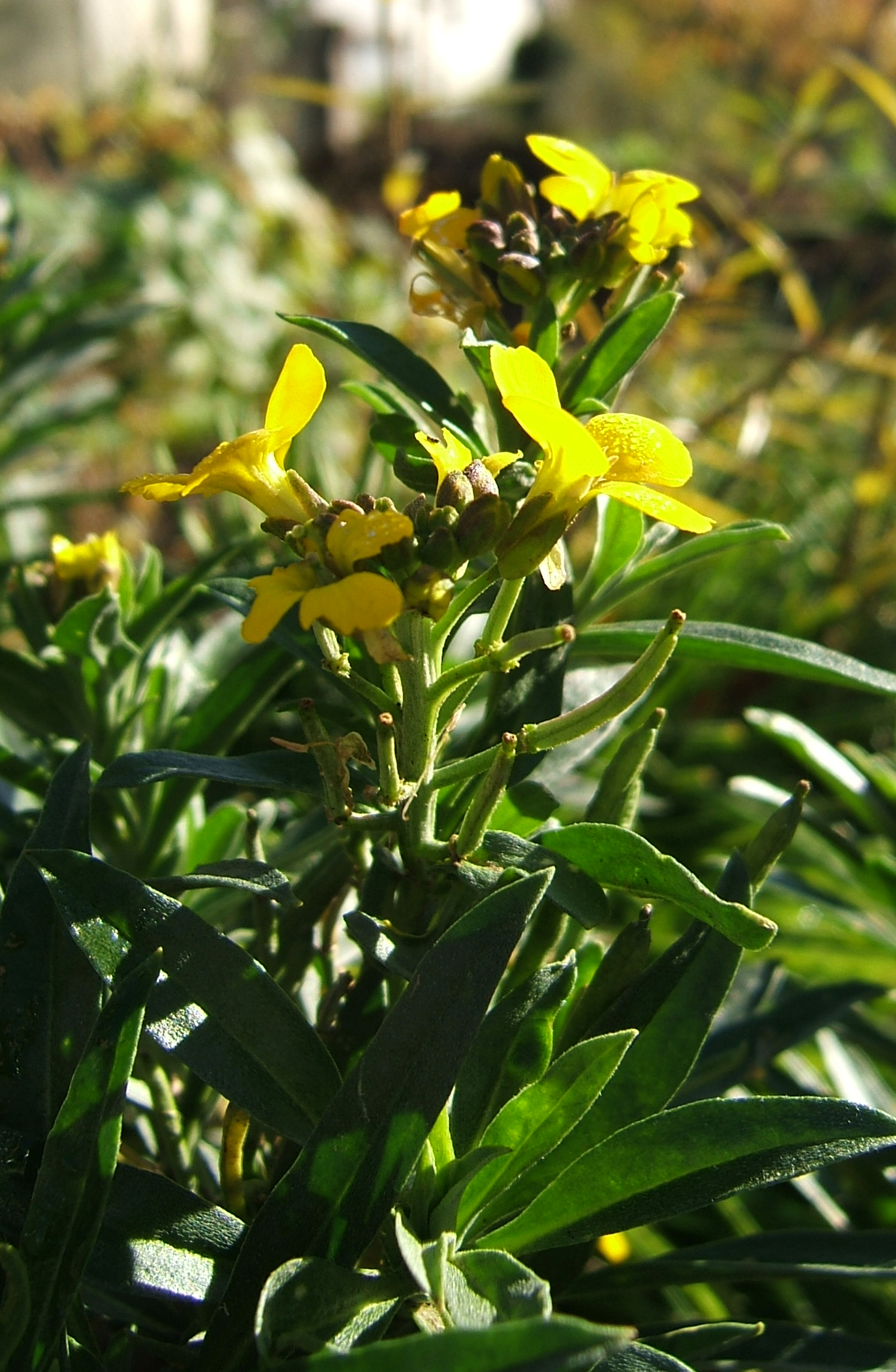 Wallflower